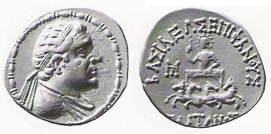 O// Diademed bust of Plato r. R//: Helios, riding a quadriga. ΒΑΣΙΛΕΩΣ ΕΠΙΦΑΝΟΥΣ ΠΛΑΤΩΝΟΣ ΒΑΣΙΛΕΩΣ ΕΠΙΦΑΝΟΥΣ ΠΛΑΤΩΝΟΣ= BASILEOS EPIFANOUS PLATONOS ie: King Plato, Manifestation of God on earth. Coin marked MZ, which possibly is a dating which equals year (1)47 Seleucid era = 166 BCE